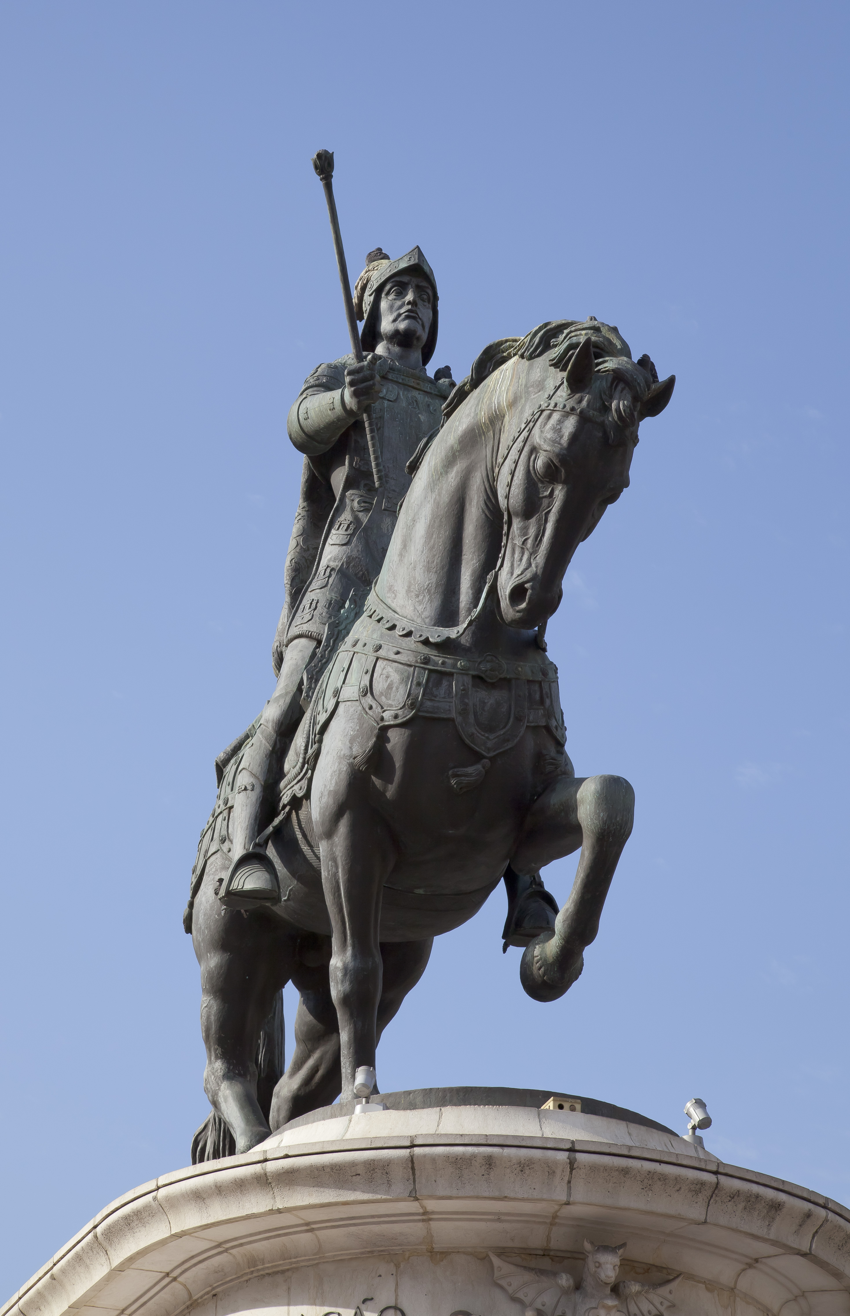 Statue of D. Joao I, Figueira Square, Lisbon, Portugal